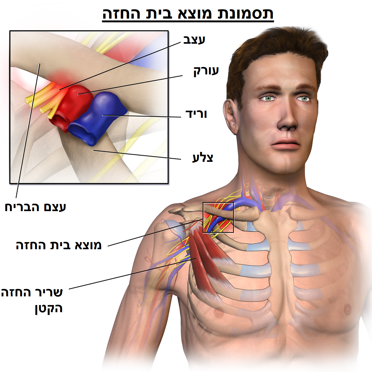 Thoracic Outlet Syndrome.[1]